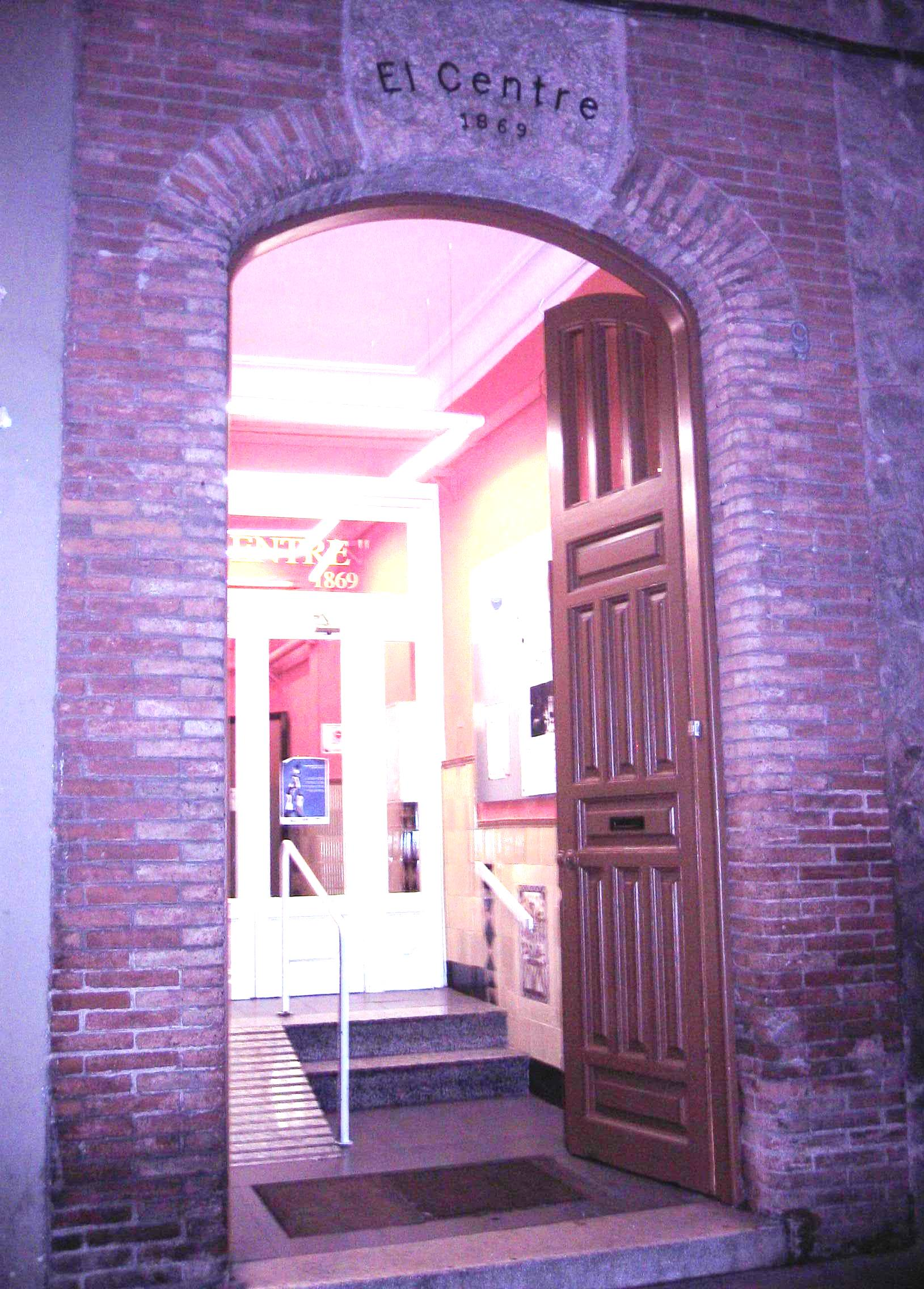 Entrance of the Centre Moral i Instructiu de Gràcia, (Catalonia).